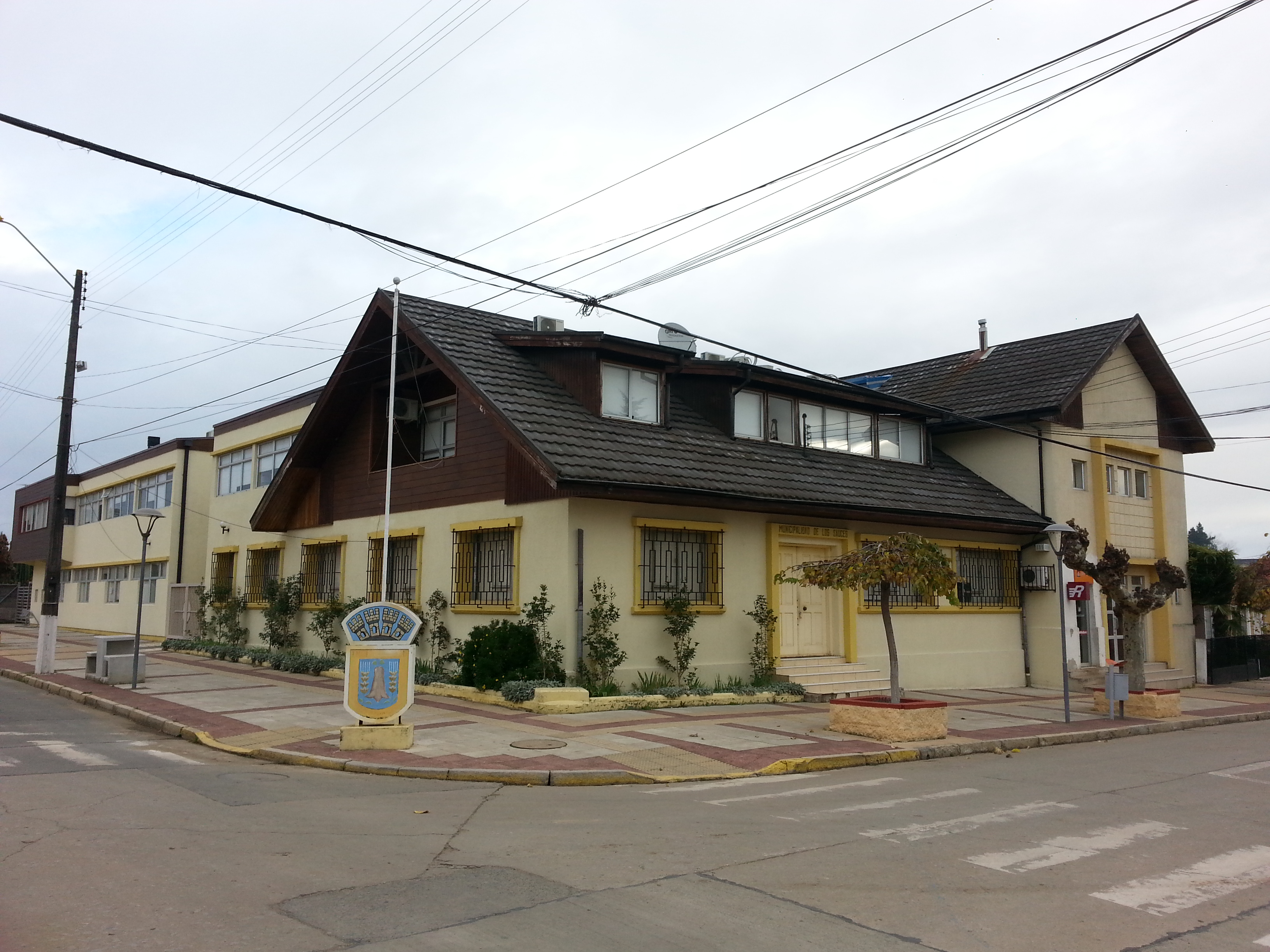 Los Sauces Town Hall